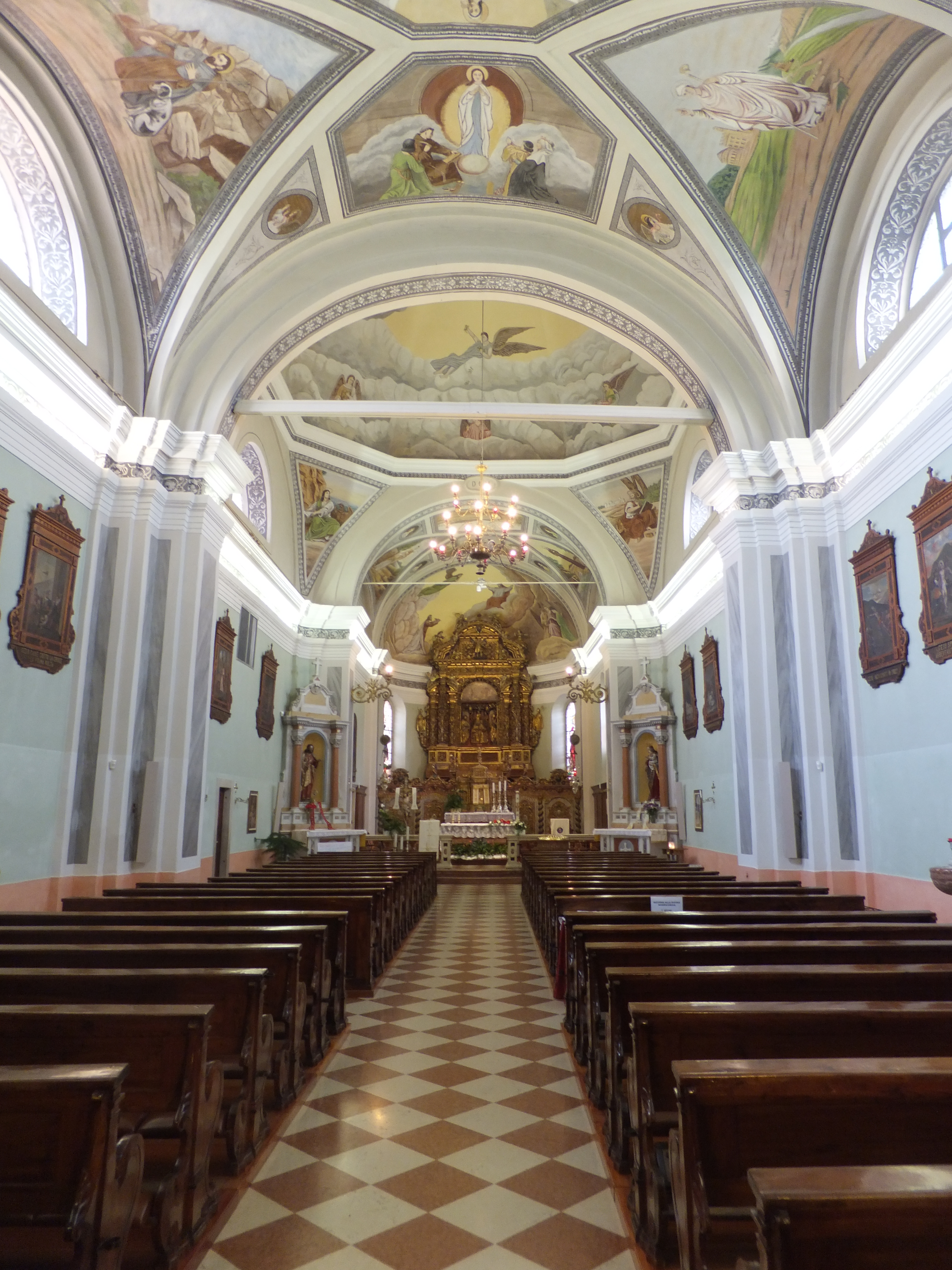 Segonzano (Trentino, Italy) - Holy Trinity church, interior